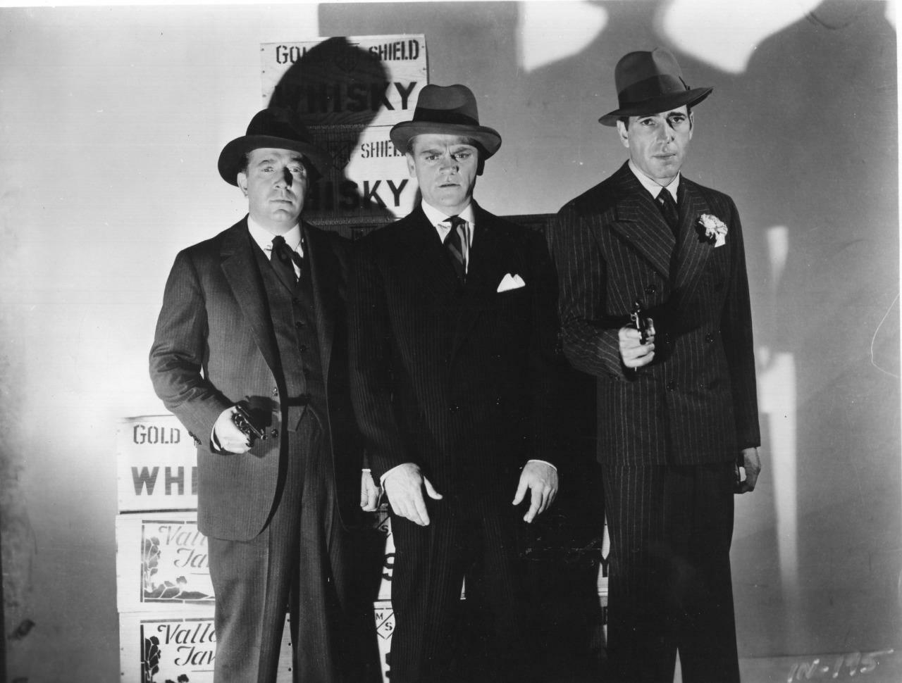 Frank McHugh, James Cagney & Humphrey Bogart in American crime thriller film The Roaring Twenties (1939). See also film still. No copyright notice.